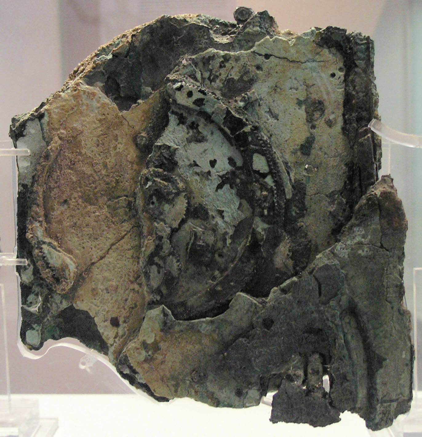 Fragment A (rear) of the Antikythera mechanism.